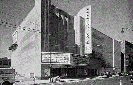 Front of the Central Theatre in Passaic, New Jersey shortly after its opening in 1940.